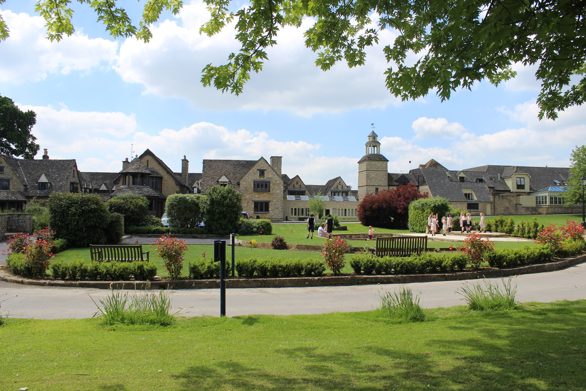 Chandlings Building 2019